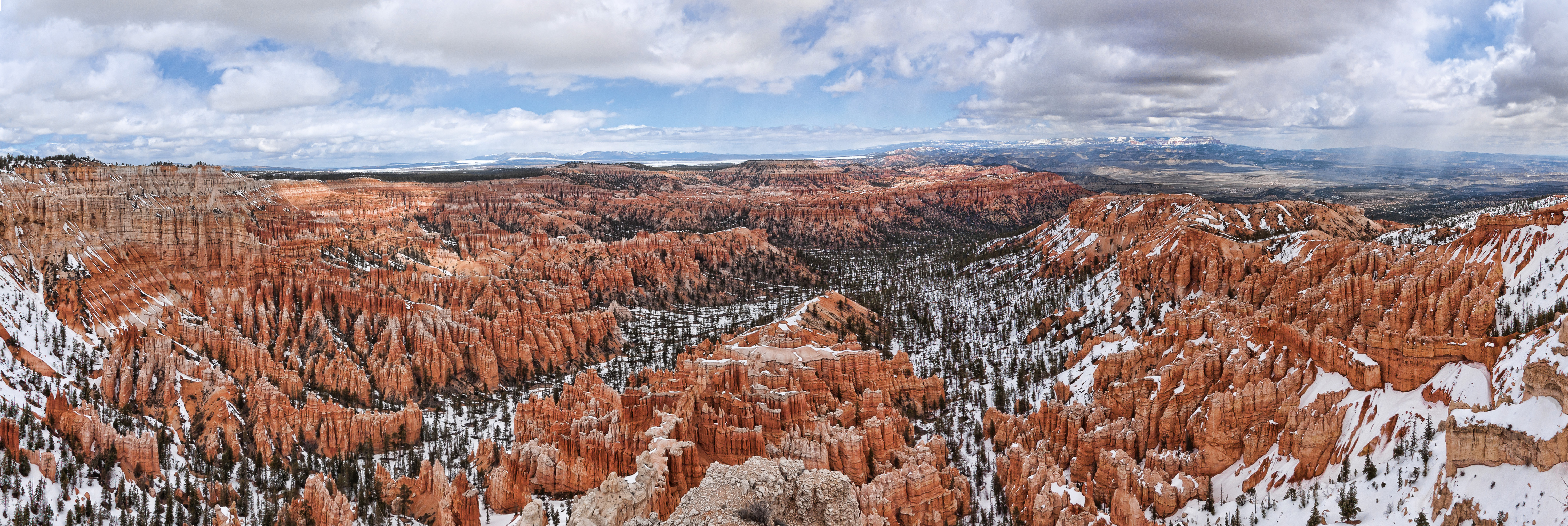 Bryce canyon, Utha - Panorama at Bryce Point (8300 feets)